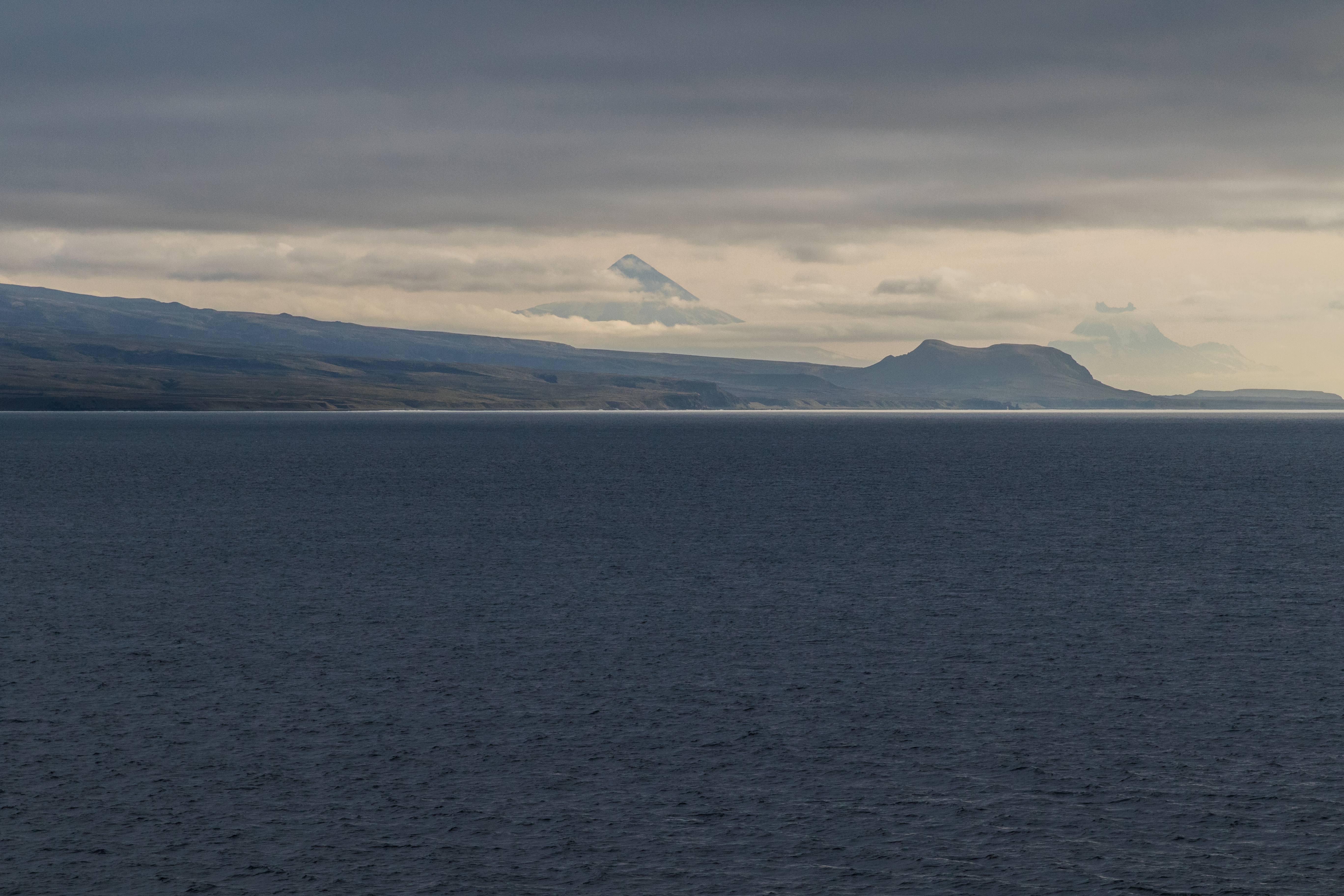 Ugamak Island as seen from the Bering Sea looking east towards Unimak Island. Ugamak is in the foreground and Shishaldin and Isanotski volcanoes on Unimak Island are in the background.